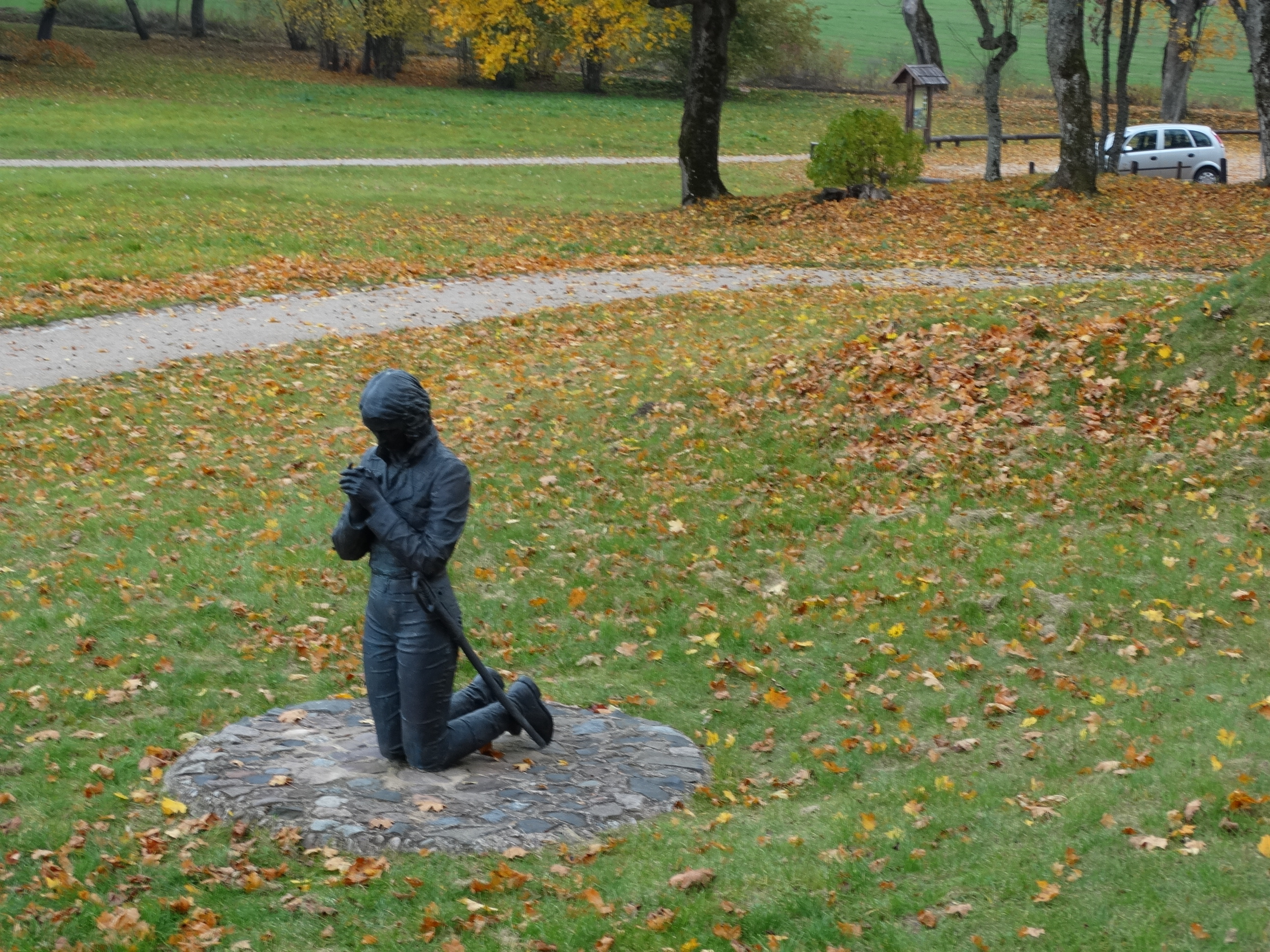 Vainežeris Park, Lazdijai district, Lithuania